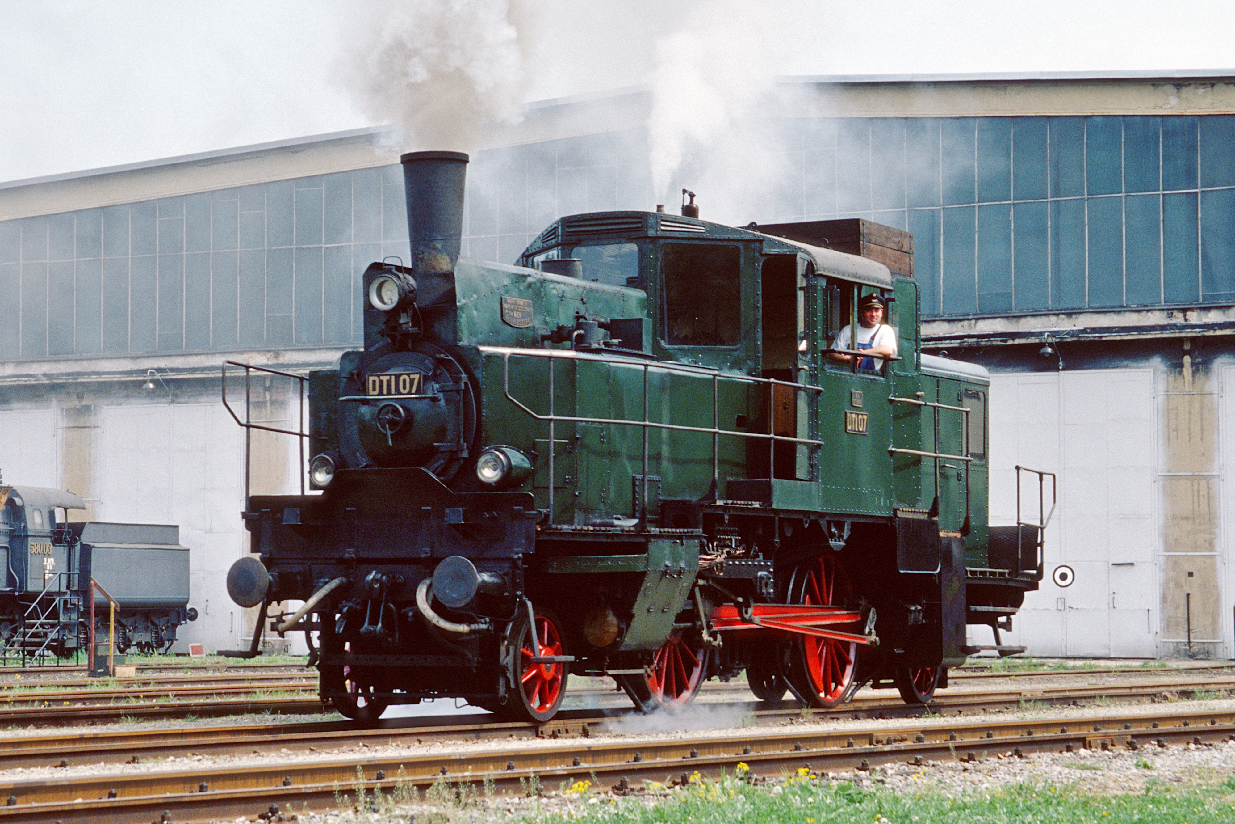 BBÖ DT1.07 (later ÖBB 3071.07) in Strasshof railway museum